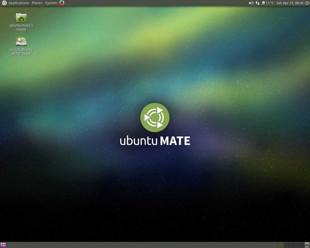 A screenshot of the Ubuntu MATE 15.04 desktop.